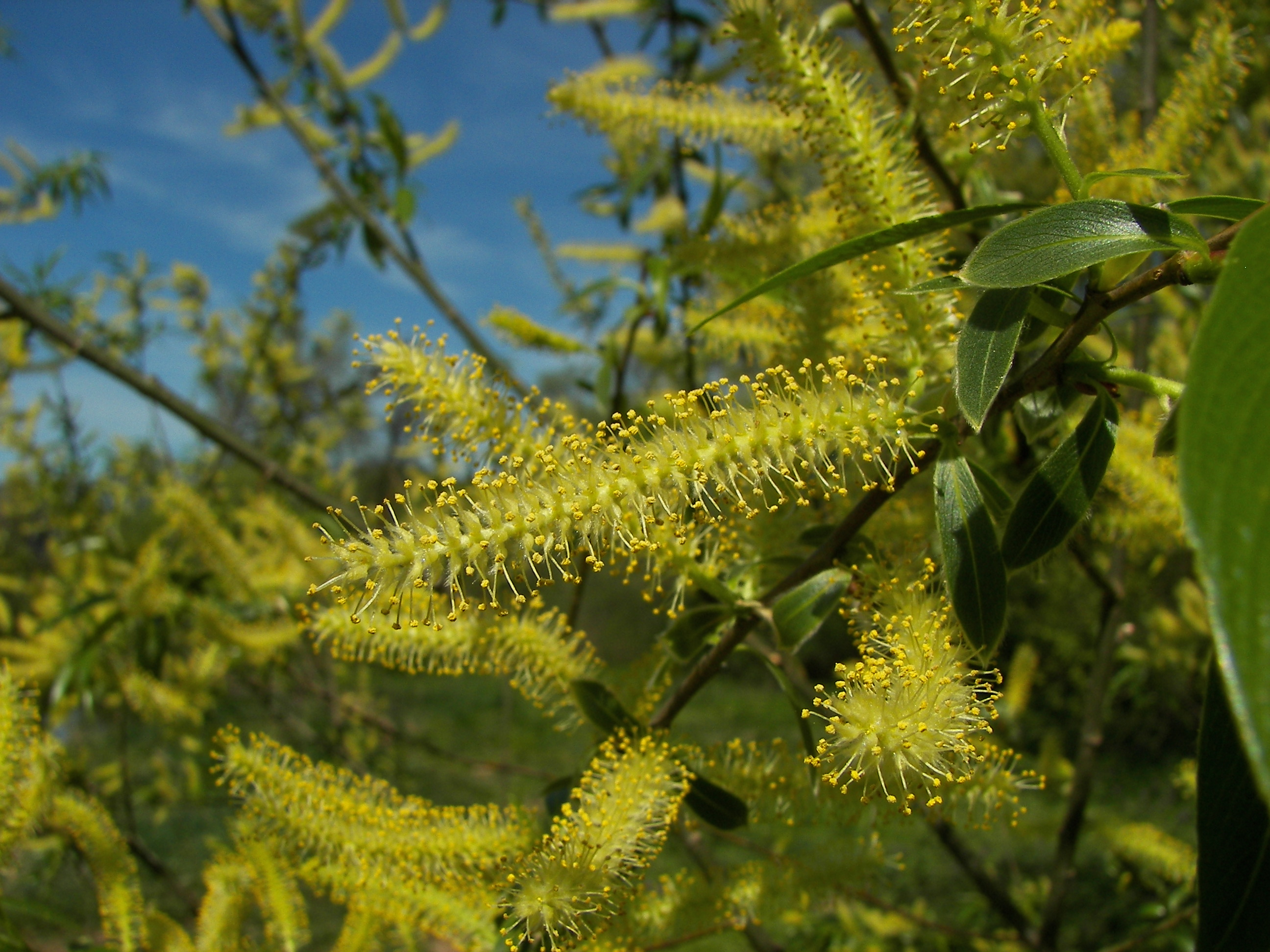 White Willow (Salix alba), male catkins, Location: Marburg, Hesse, Germany